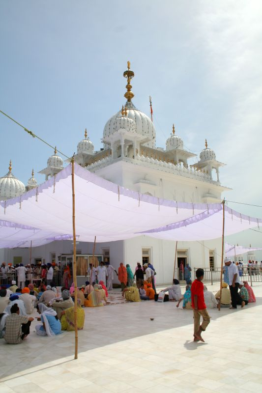 Visitors at Takht Sri Keshgarh Sahib resting in the shade of a temporary canopy during the Sikh holiday of Vaisakhi.